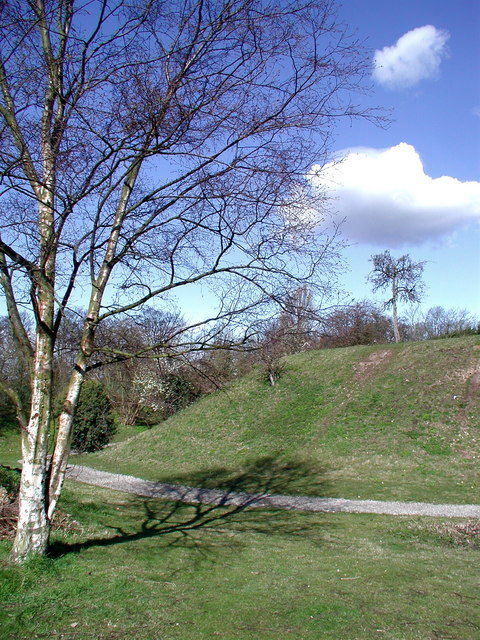 Peel Hill Castle, Thorne The motte is a Listed National Monument which was purchased for the benefit of the public in 1979 from the proceeds of Thorne Town Lottery. The castle was possibly a hunting lodge for Hatfield Chase. A stone tower stood on the motte until the 16th century and there was probably a bailey to the south.